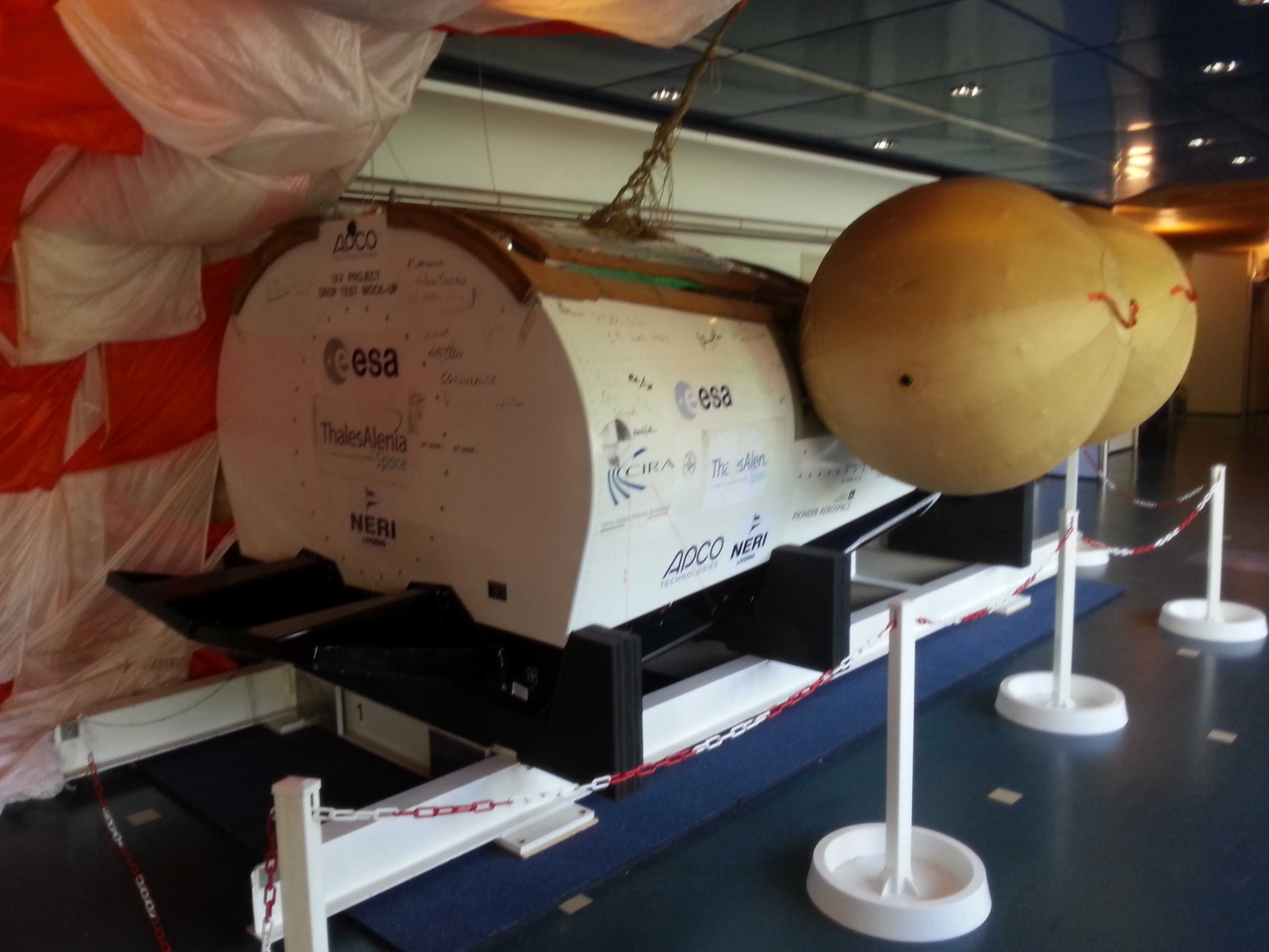 This is the drop-test model of the Intermediate eXperimental Vehicle with the flotation balloons inflated, as displayed in ESA ESTEC. Note that the flaps in this model cannot move.